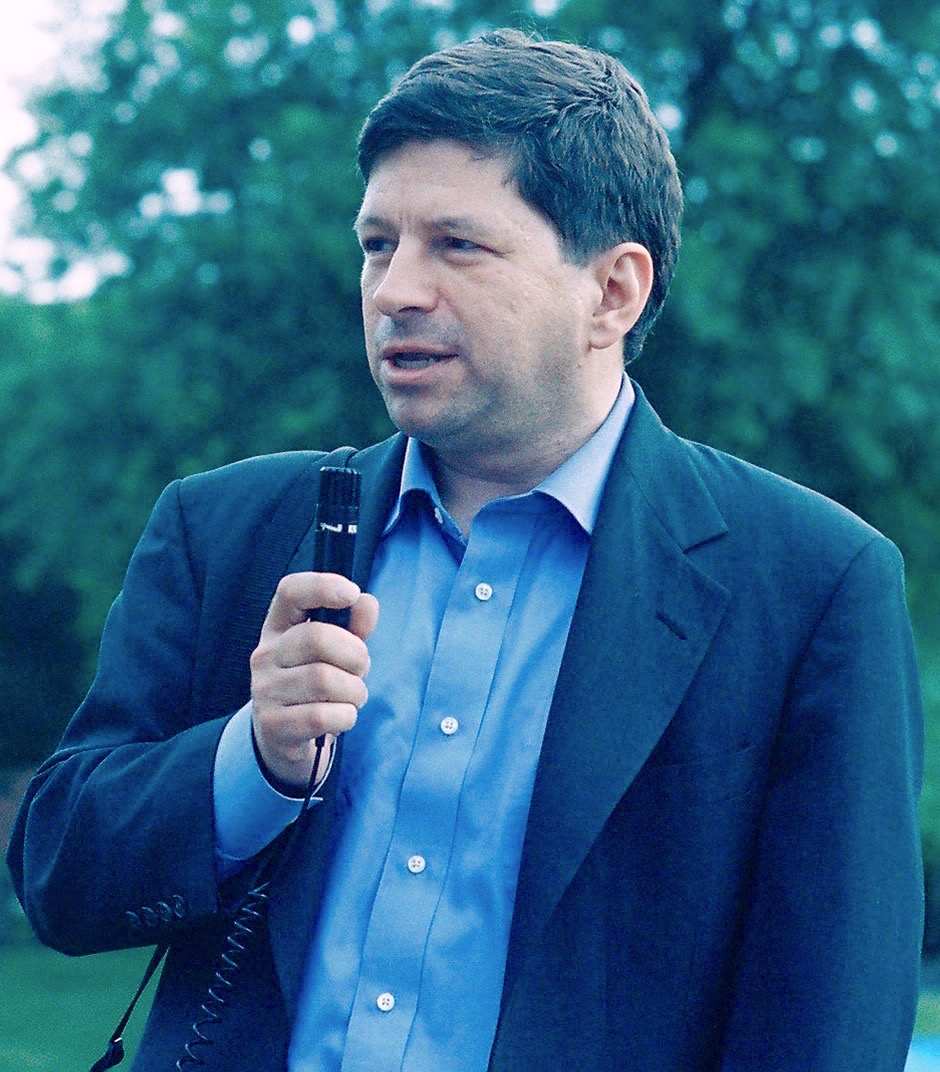 United States political activist Steve Novick, at a rally in Beaverton, Oregon.